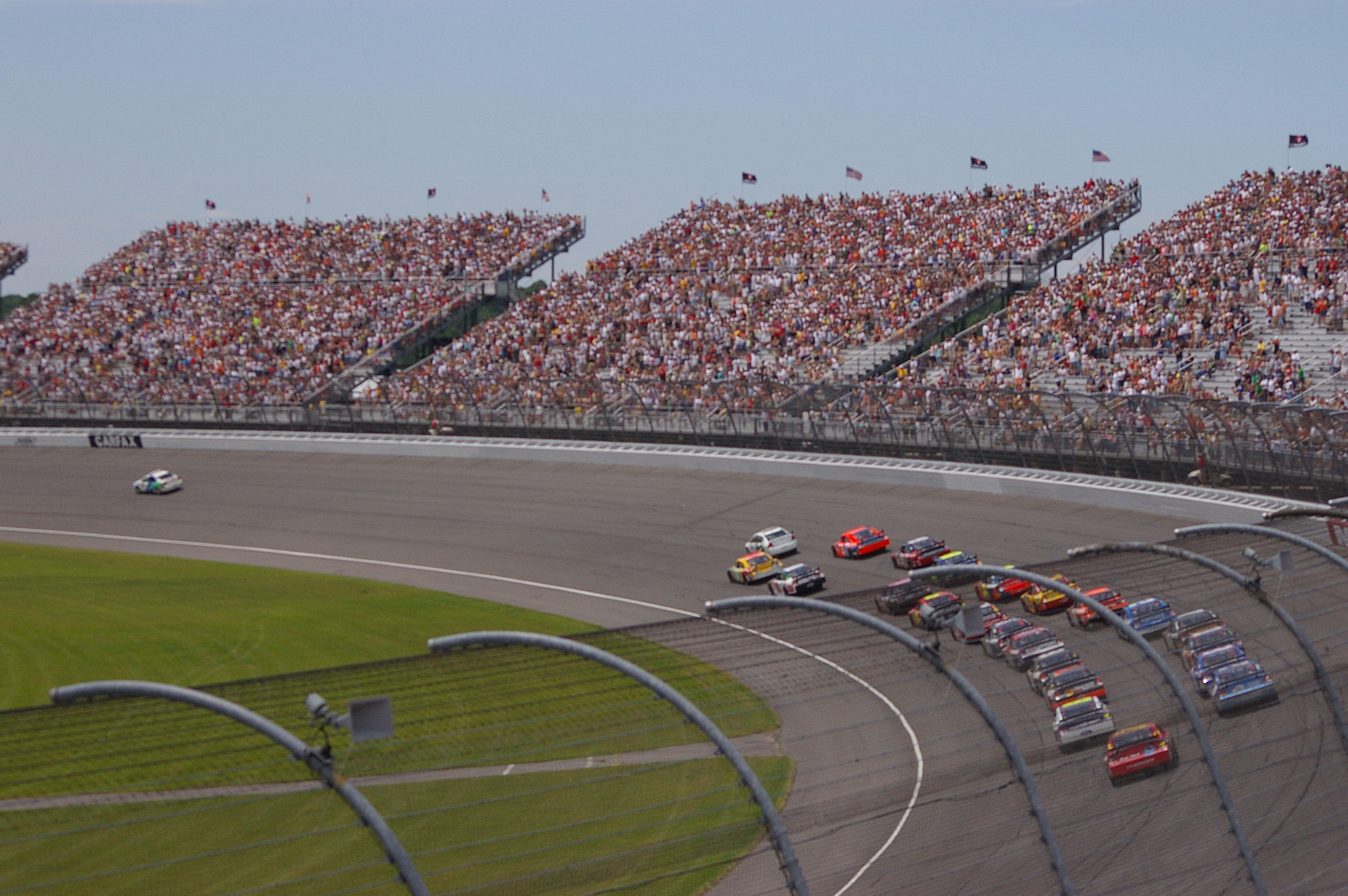 Michigan International Speedway (2008)